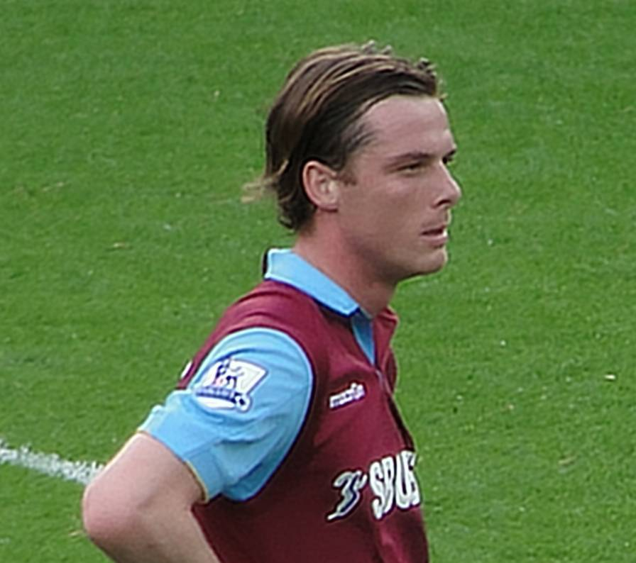 West Ham United player Scott Parker playing in their last game of the 2010-11 season, against Sunderland, at the Boleyn Ground, London.